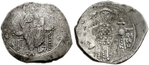 Alexius I Comnenus. 1081-1118. BI Aspron Trachy (23mm, 4.25 g, 5h). Philippopolis(?) mint. Christ enthroned facing Alexius standing facing, holding labarum and globus cruciger. DOC 31; SB 1936.